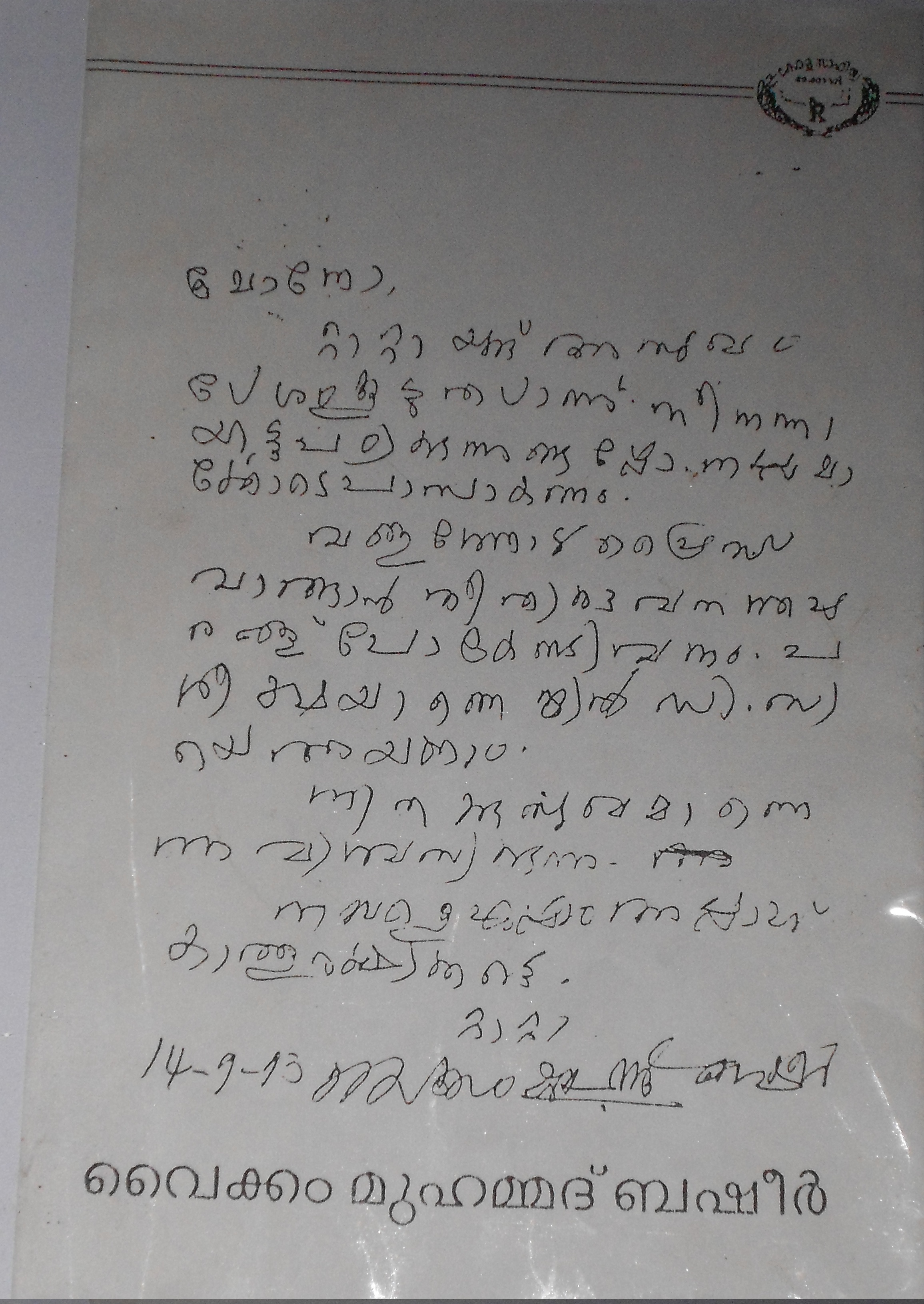 Basheer handwriting, from Kerala sahitya academy exhibition, thrissur in connection with national book festival